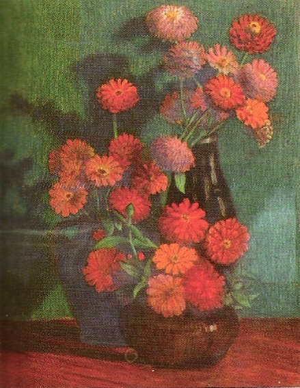 This work depicts a still life with flowers. Executed by Jenő Pozsonyi (1885-1936)in 1929. pastel on paper 55 x 24 cm